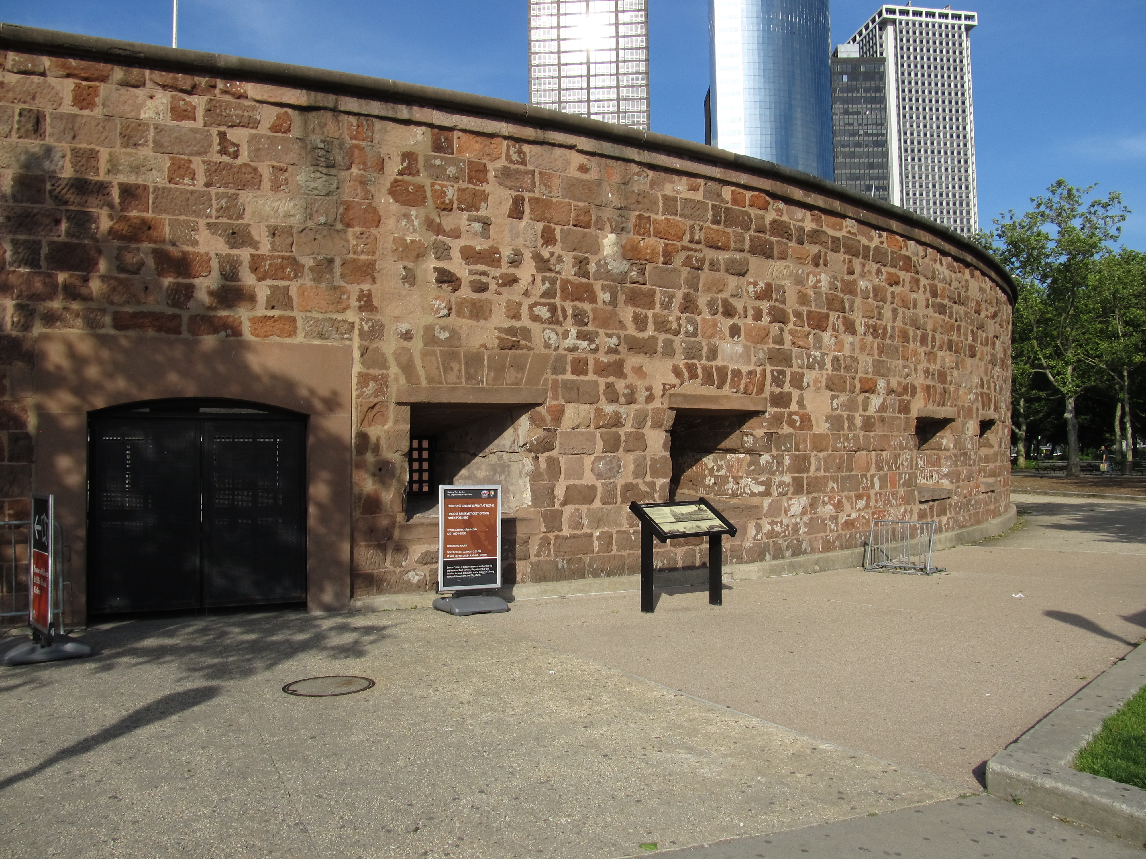 Castle Clinton or Fort Clinton, once known as Castle Garden, is a circular sandstone fort now located in Battery Park at the southern tip of Manhattan Island, New York City, in the United States. It is perhaps best remembered as America's first immigration station (predating Ellis Island), where more than 8 million people arrived in the U.S. from 1855 to 1890. Over its active life, it has also functioned as a beer garden, exhibition hall, theater, public aquarium, and finally today as a national monument.